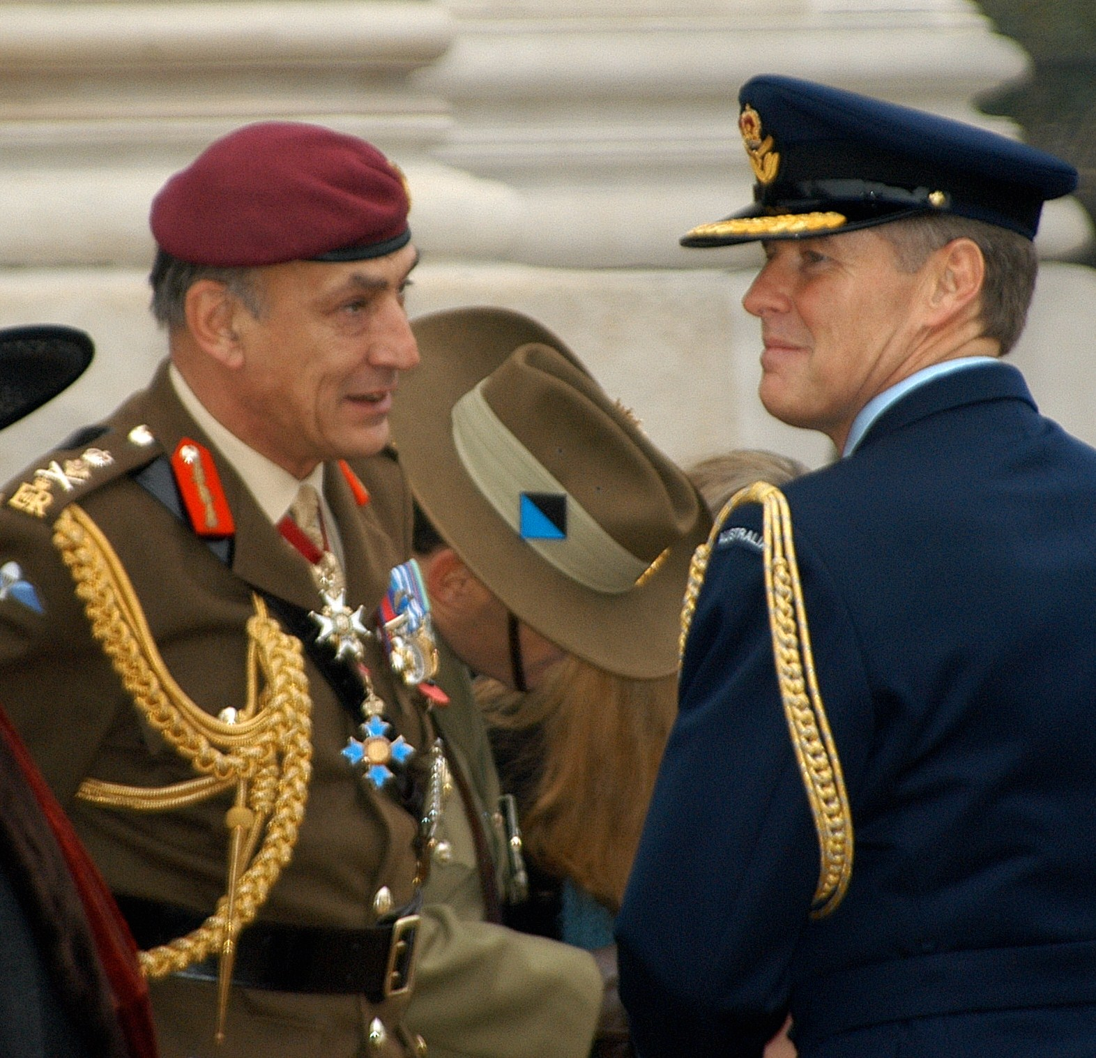 General Sir Mike Jackson in conversation with a Royal Australian Air Force group captain